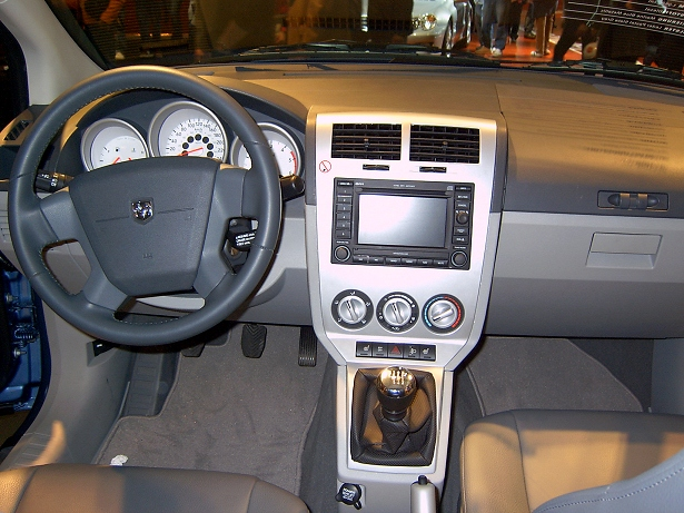 Dashboard of Dodge Caliber